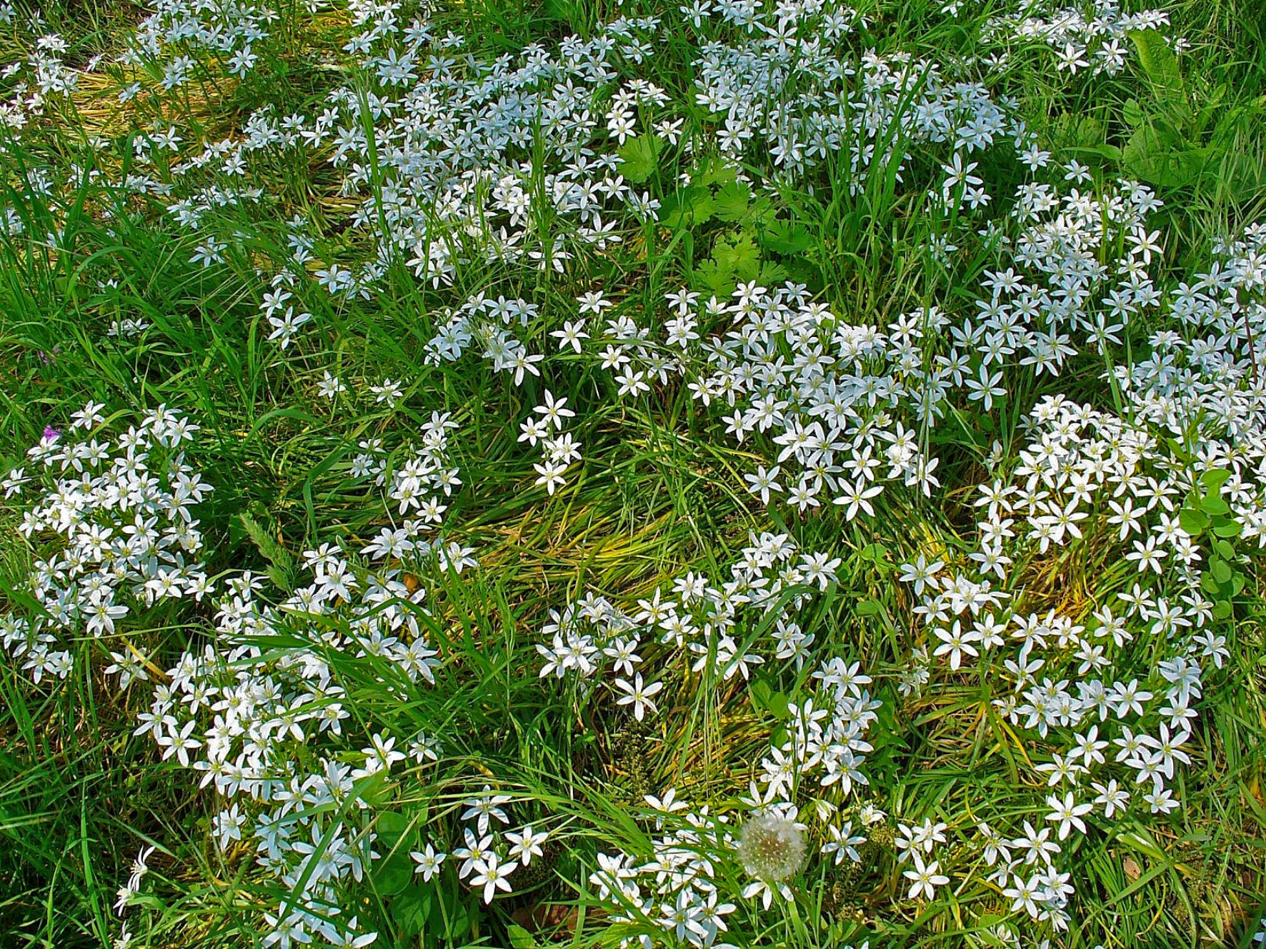 Ornithogalum umbellatum, Hyacinthaceae, Star-of-Bethlehem, Grass Lily, habitus. Karlsruhe, Germany.